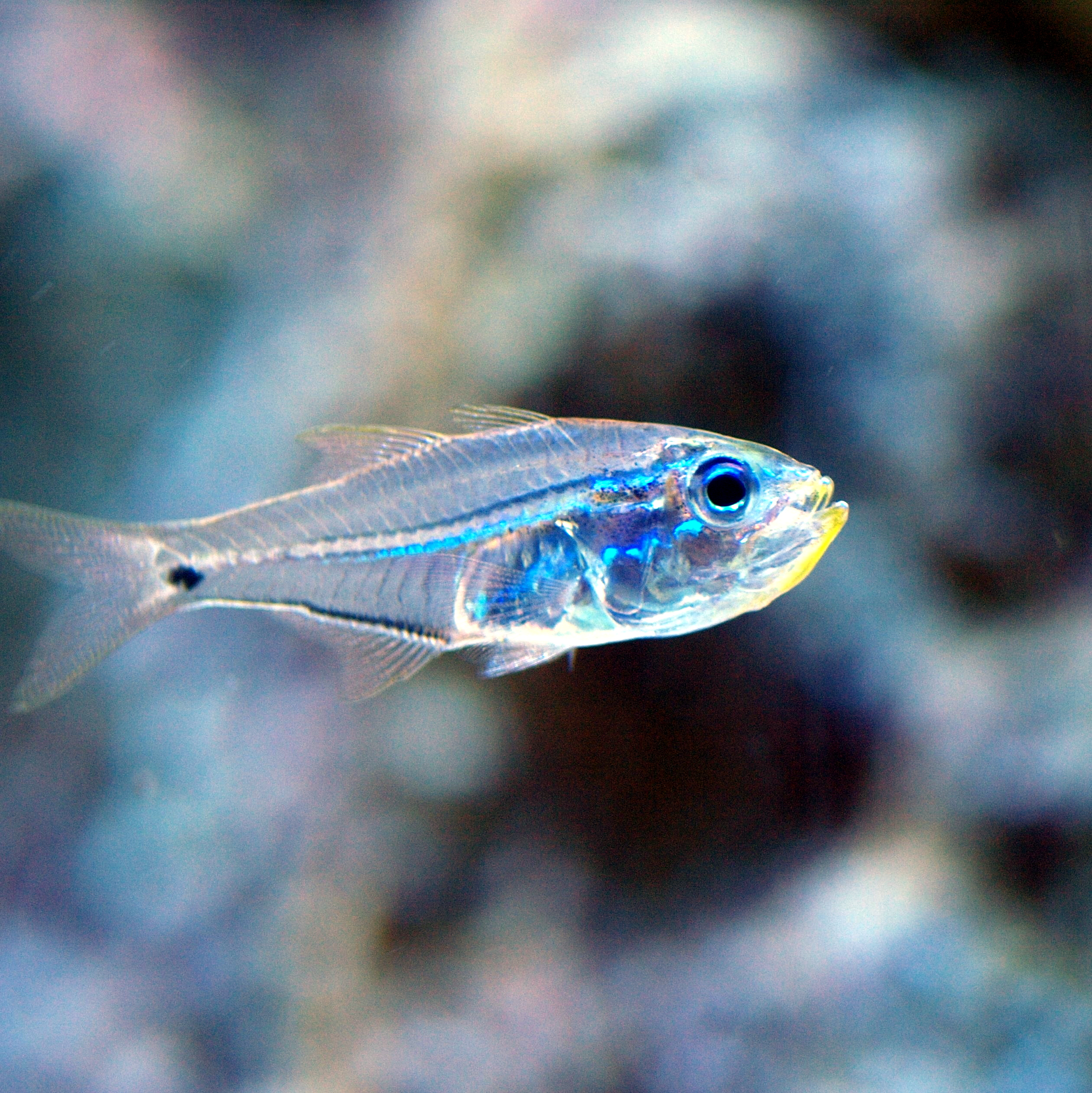 Pigmy sweeper Parapriacanthus_ransonneti (Steindachner, 1870)